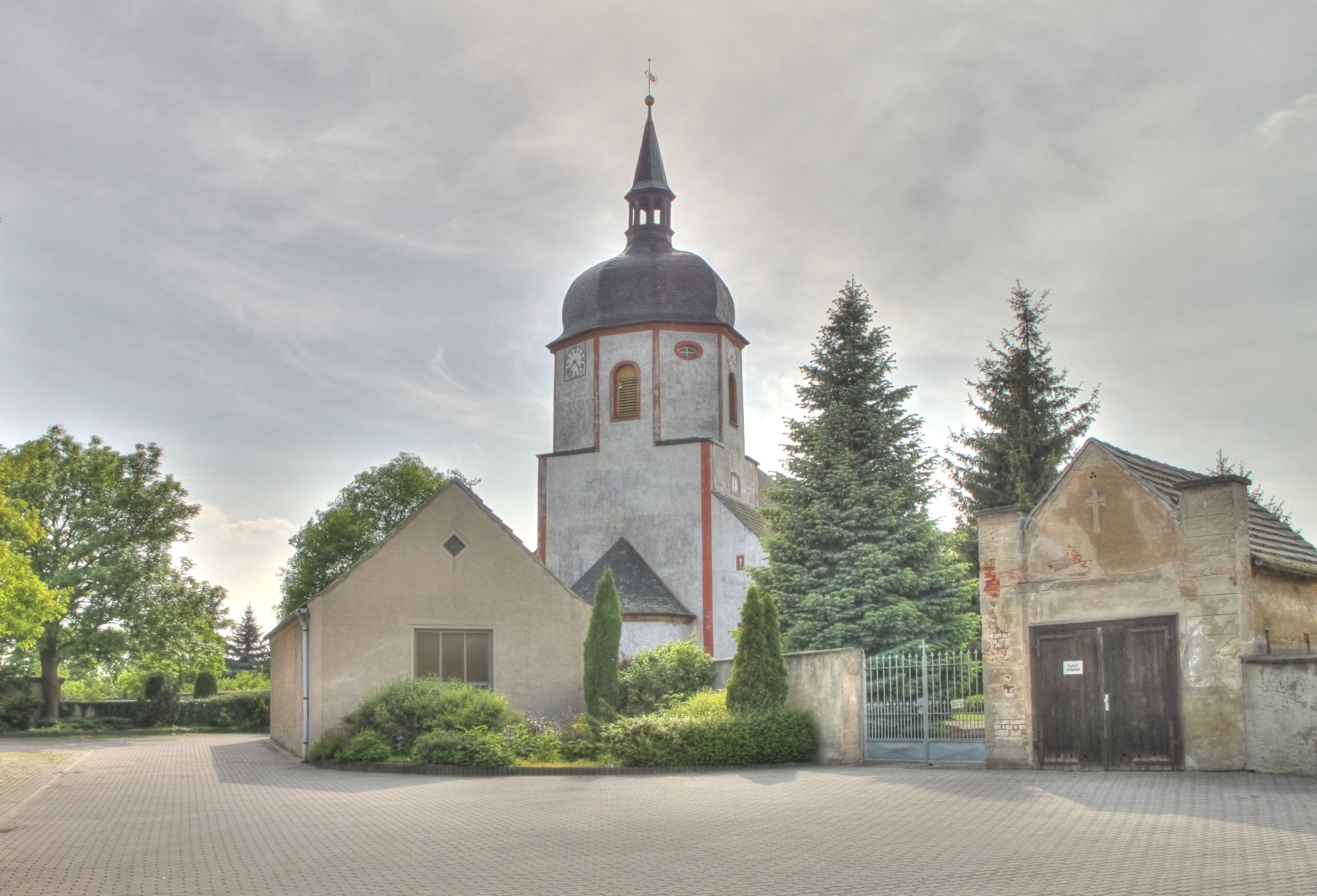 Chapel Falkenhain (Lossatal)